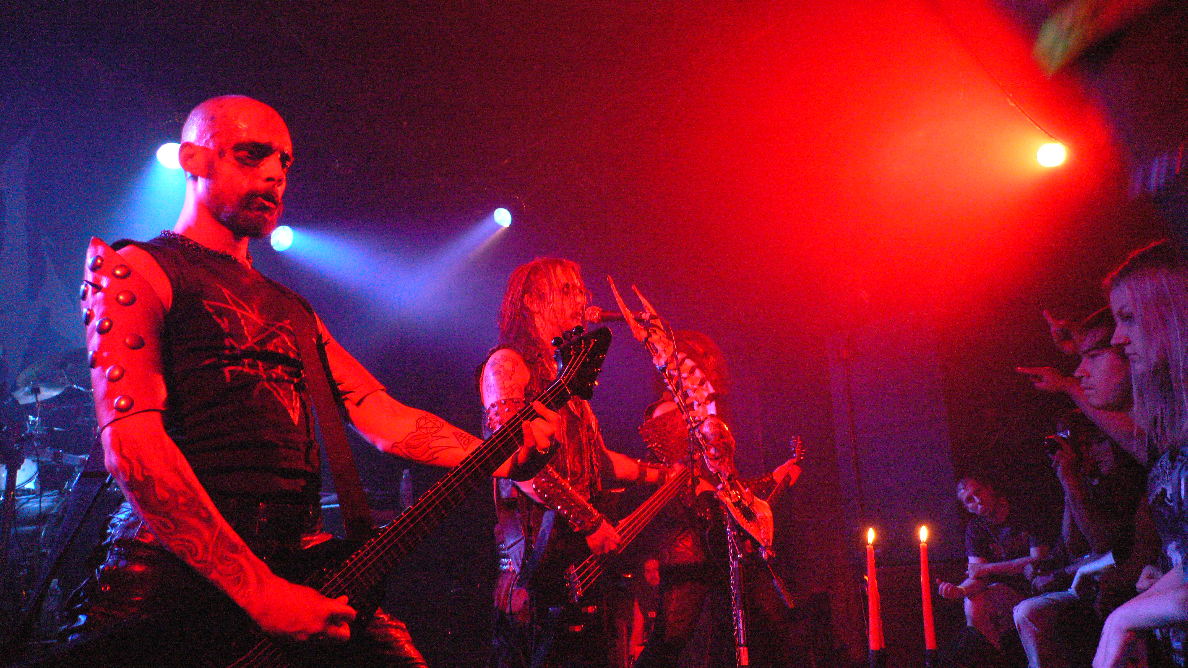 Set Teitan, Erik Danielsson and P. Forsberg of Watain live at Jaxx on 16 May 2007.